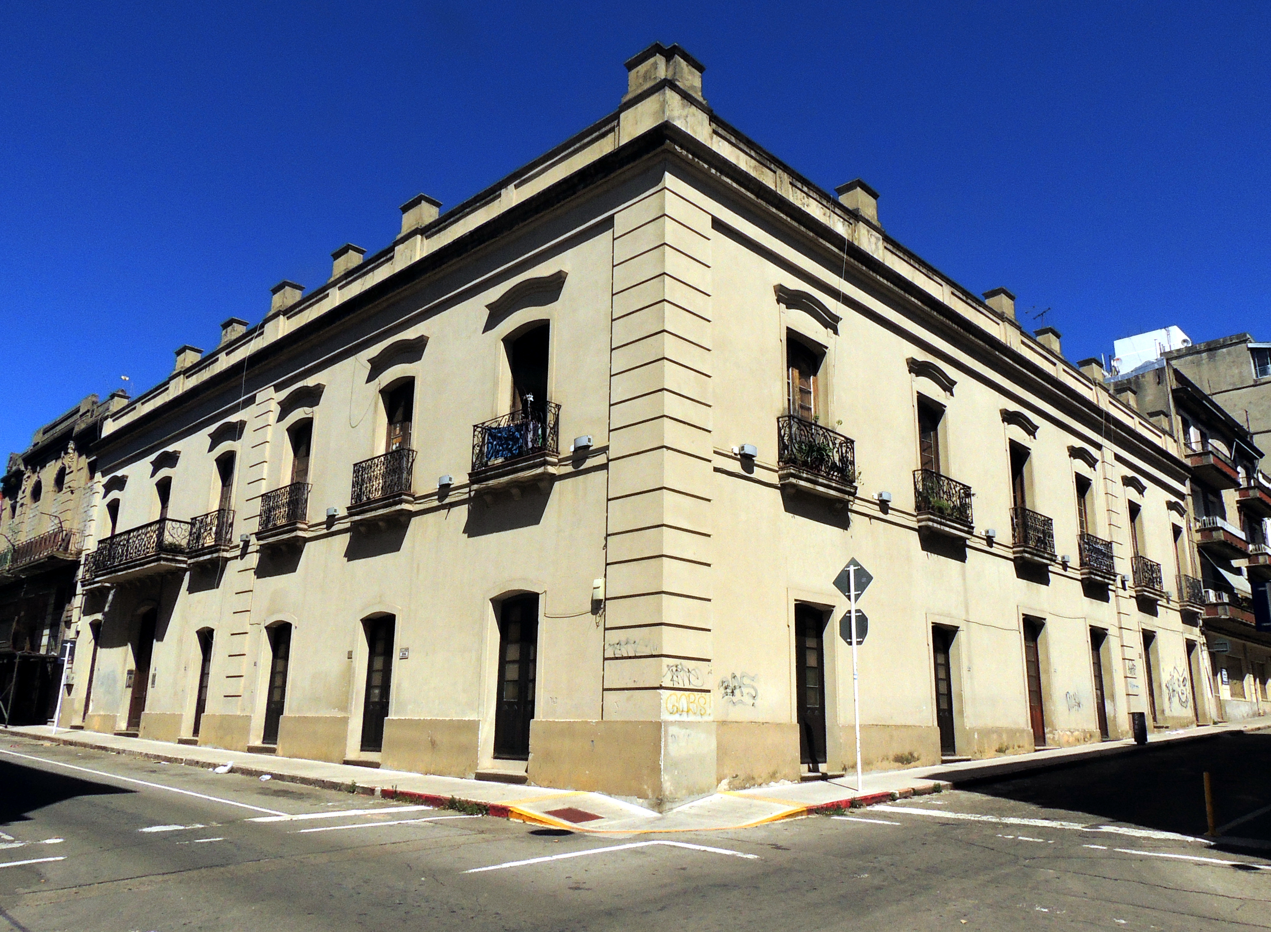 Historical building in the Calle Ituzaingó in Montevideo, Uruguay.